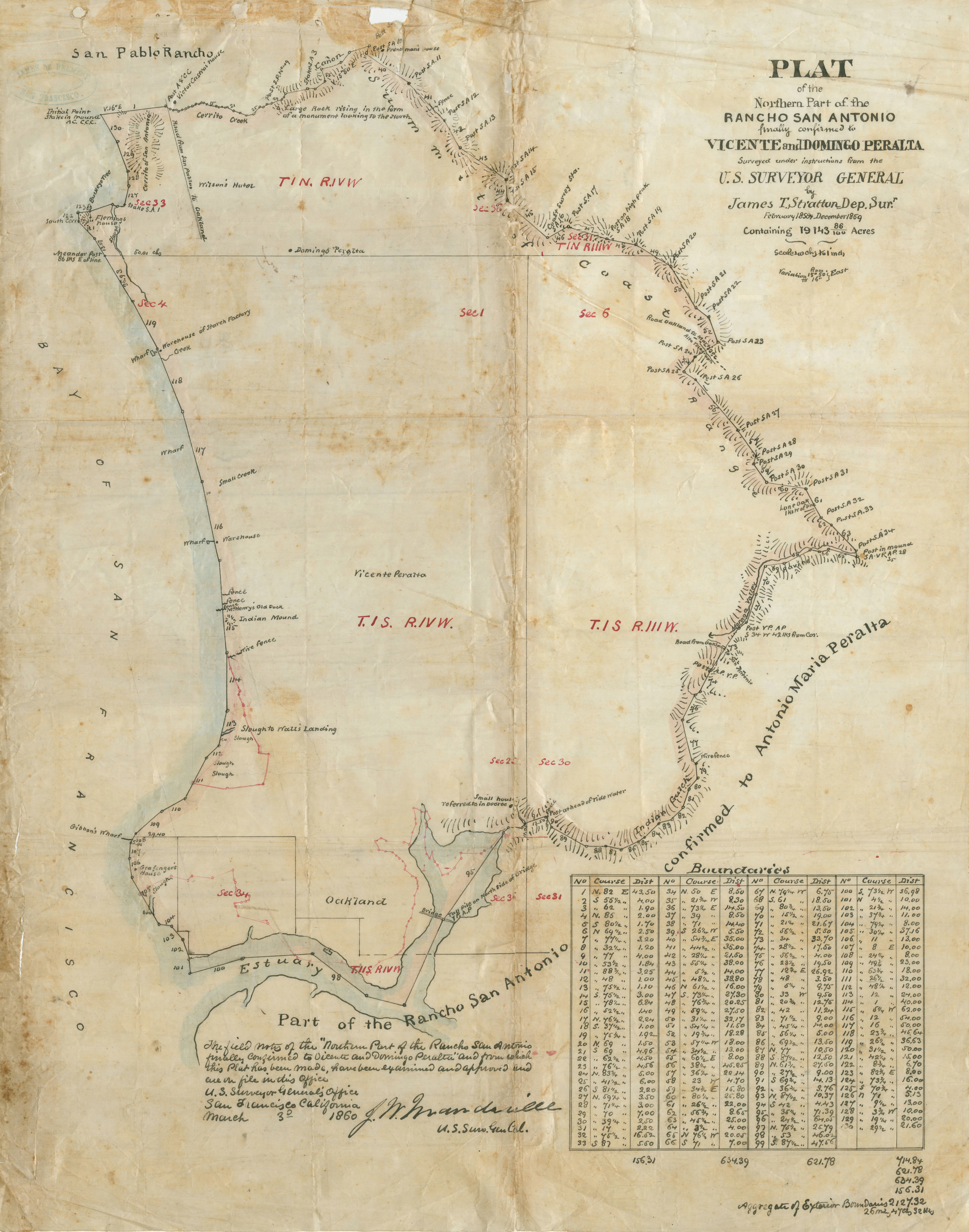 Plat (map) of the Northern Part of the Rancho San Antonio in California, in present day Alameda County, Northern California. Finally confirmed by U.S. to Vicente and Domingo Peralta [cartographic material], containing 19,143 86/100 acres, c. February 1858 - December 1859.